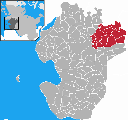 This map shows the area of the Amt Tellingstedt in the district Dithmarschen, Schleswig-Holstein, Germany.